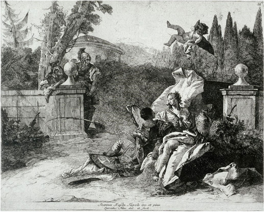 Rinaldo and Armida Watched by two Soldiers